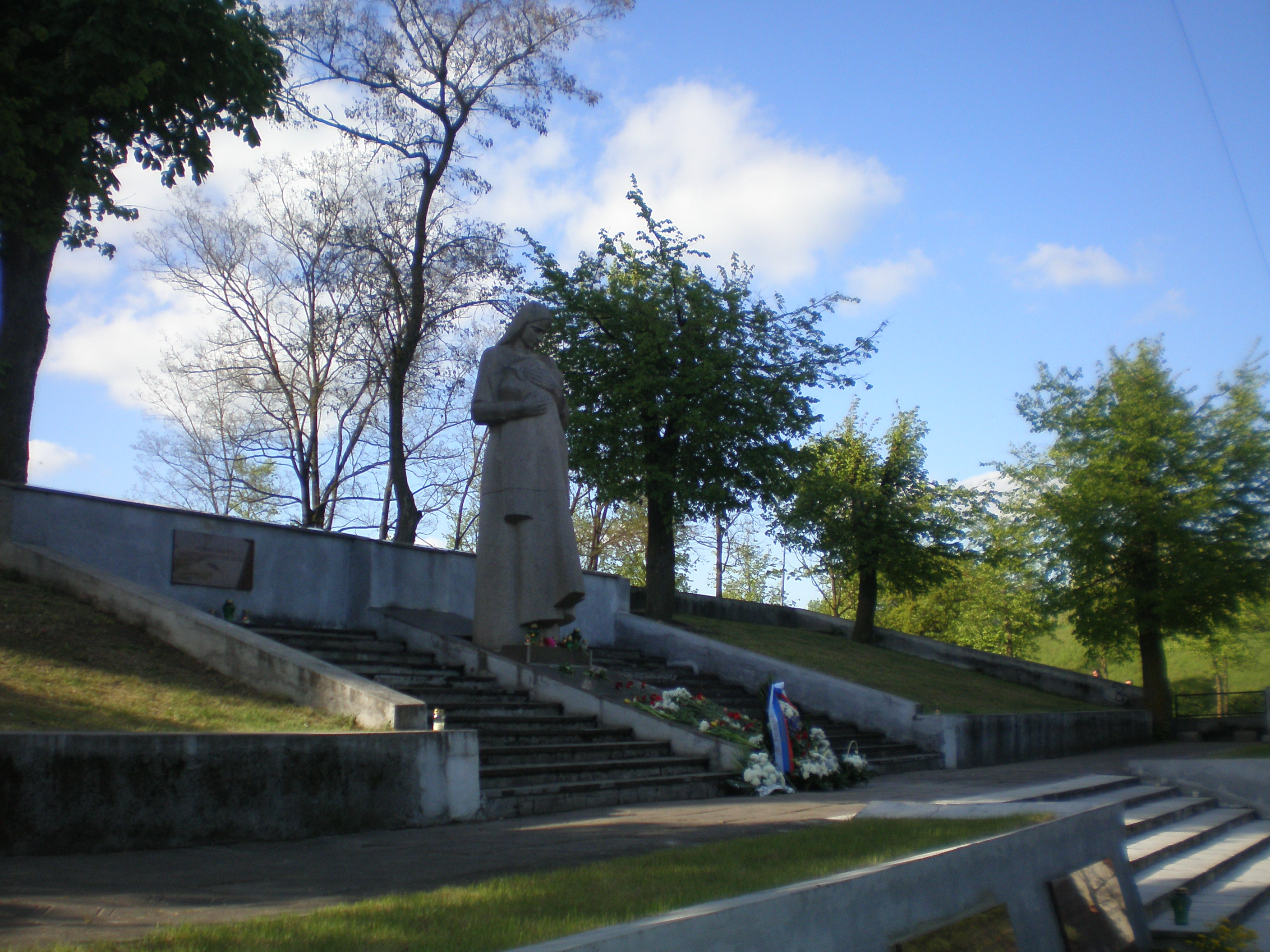 Jonava soldiers' cemetery